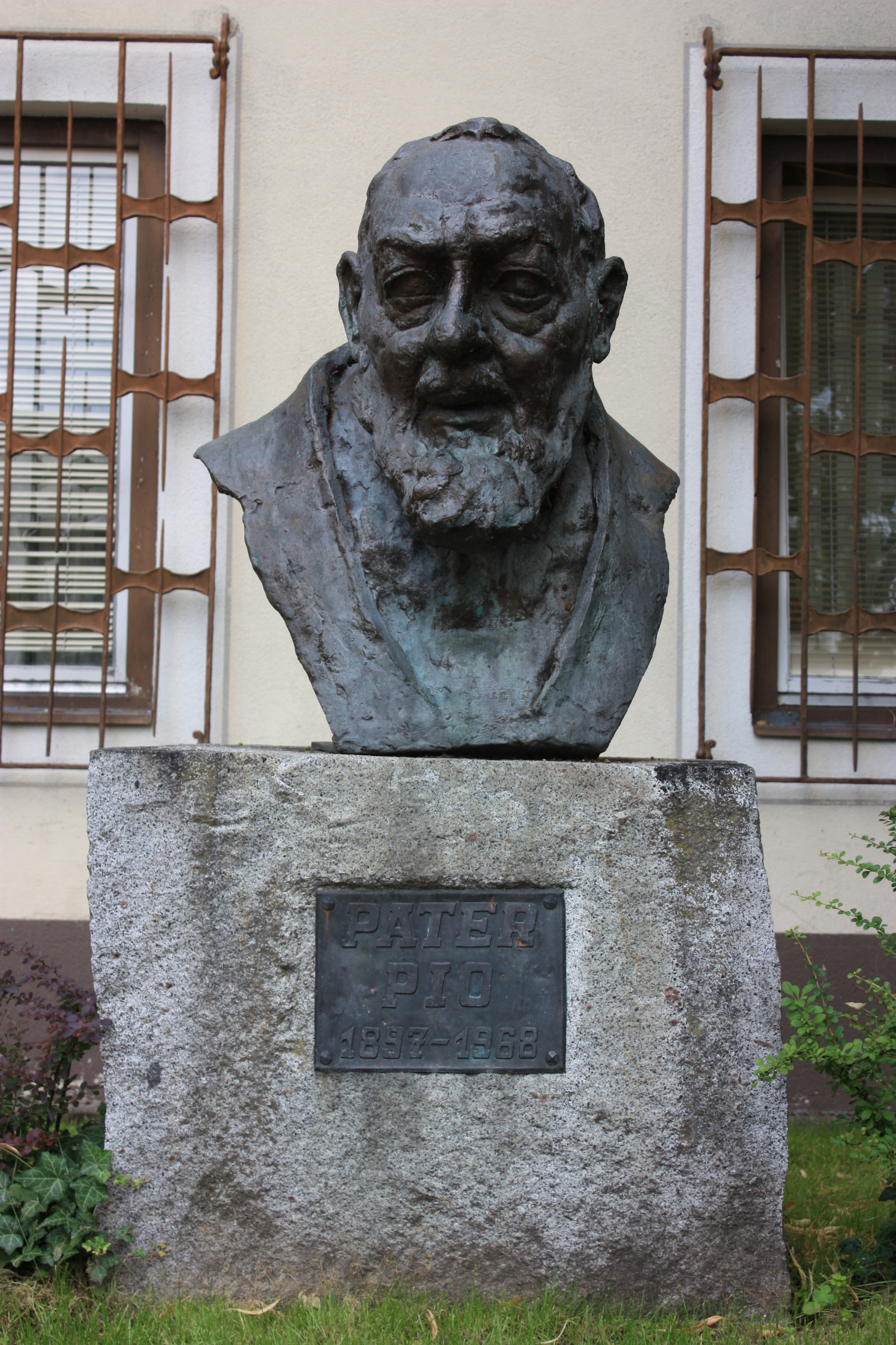 Padre-Pio-sculpture Locality:Muchargasse Community:Lienz